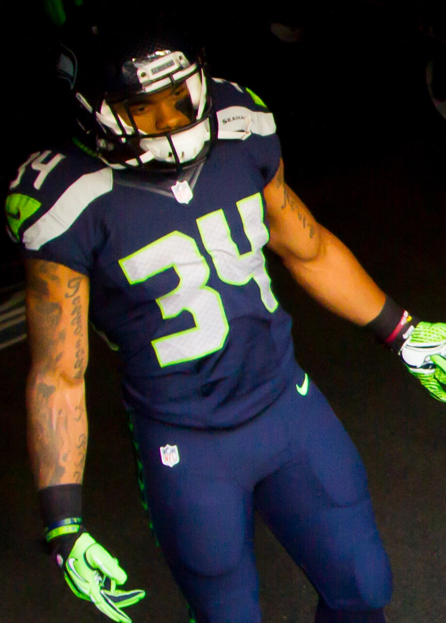 2015 preseason